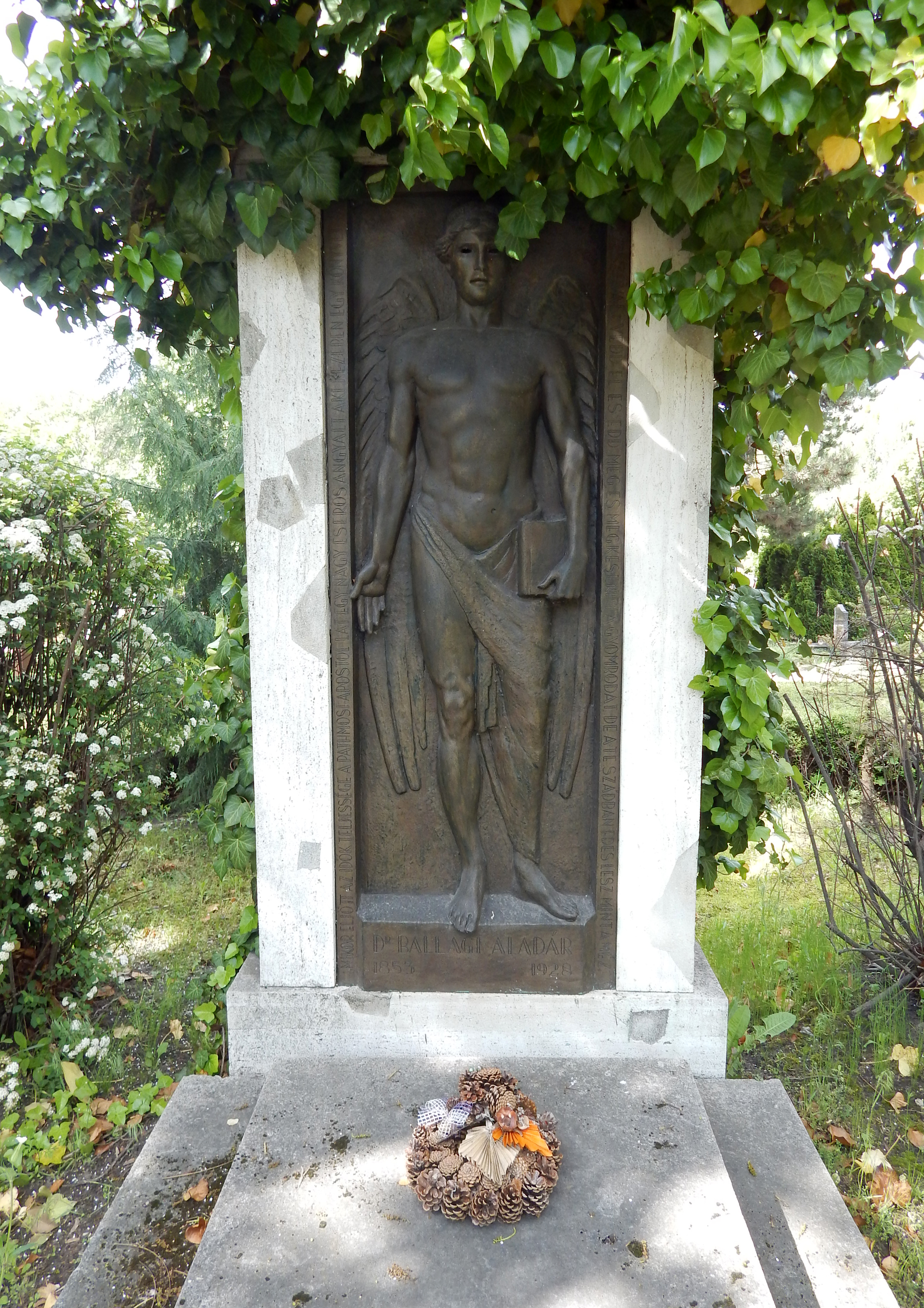 Tomb of Dr Aladár Ballagi